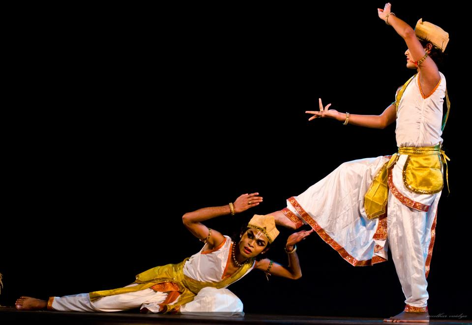 the dwarf, appeared in the Treta Yuga. The fourth descendant of Hiranyakashyap, Bali, with devotion and penance was able to defeat Indra, the god of firmament. This humbled the other deities and extended his authority over the three worlds. The gods appealed to Vishnu for protection and he descended as the dwarf Vamana. During a yajna of the king, Vamana approached him in the midst of other Brahmins. Bali was happy to see the diminutive holy man, and promised whatever he asked. Vamana asked for three paces of land. Bali agreed, and the dwarf then changed his size to that of a giant. He stepped over heaven in his first stride, and the netherworld with the second. Bali realized that Vamana was Vishnu incarnate. In deference, the king offered his head as the third place for Vamana to place his foot. The avatar did so and thus granted Bali immortality. Then in appreciation to Bali and his grandfather Prahlada, Vamana made him ruler of Pathala, the netherworld. Bali is believed to have ruled Kerala and Tulunadu. He is still worshiped there as the king of prosperity and recalled before the time of harvest.